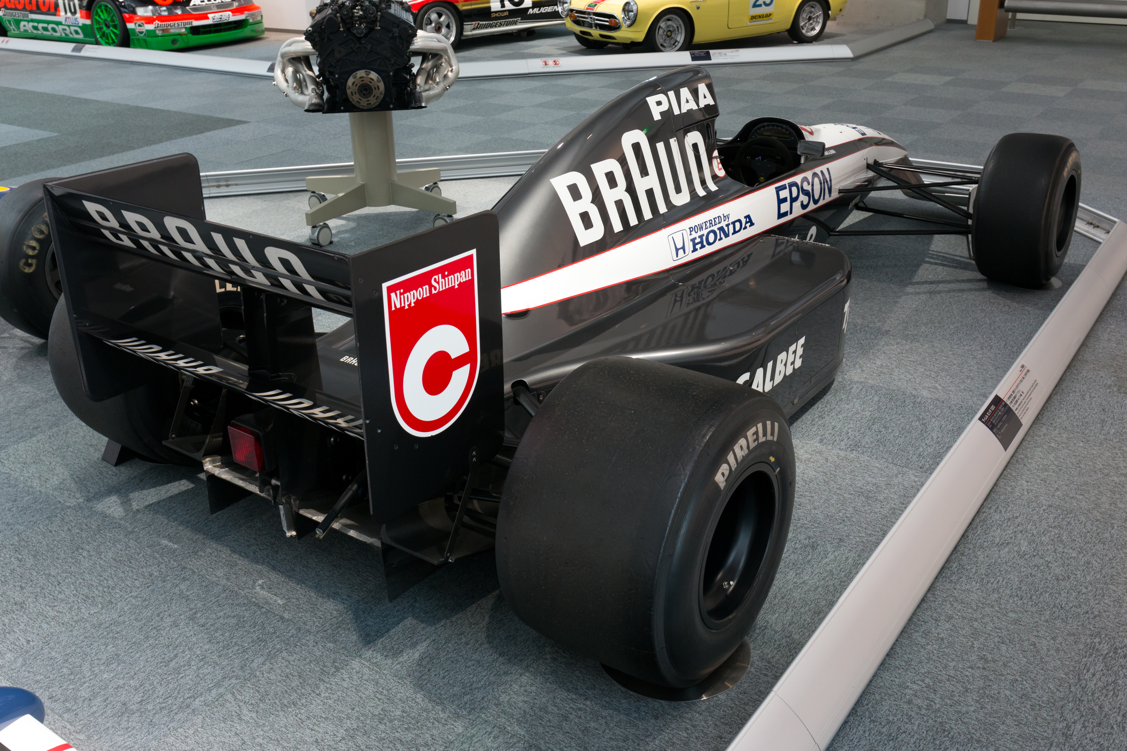 1991 Tyrrell 020